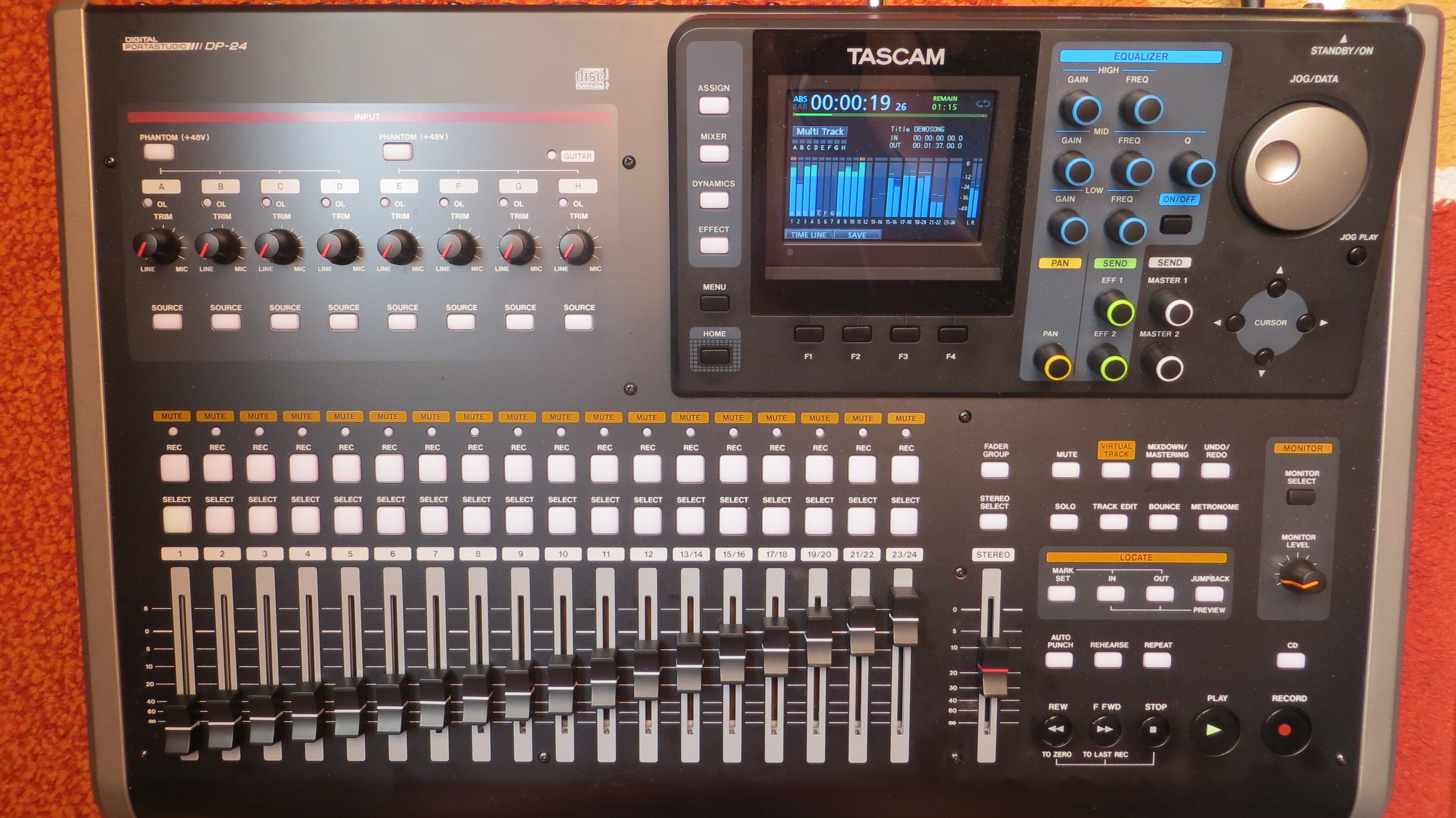 Tascam DP-24 Portastudio – multichannel recorder with 24 tracks